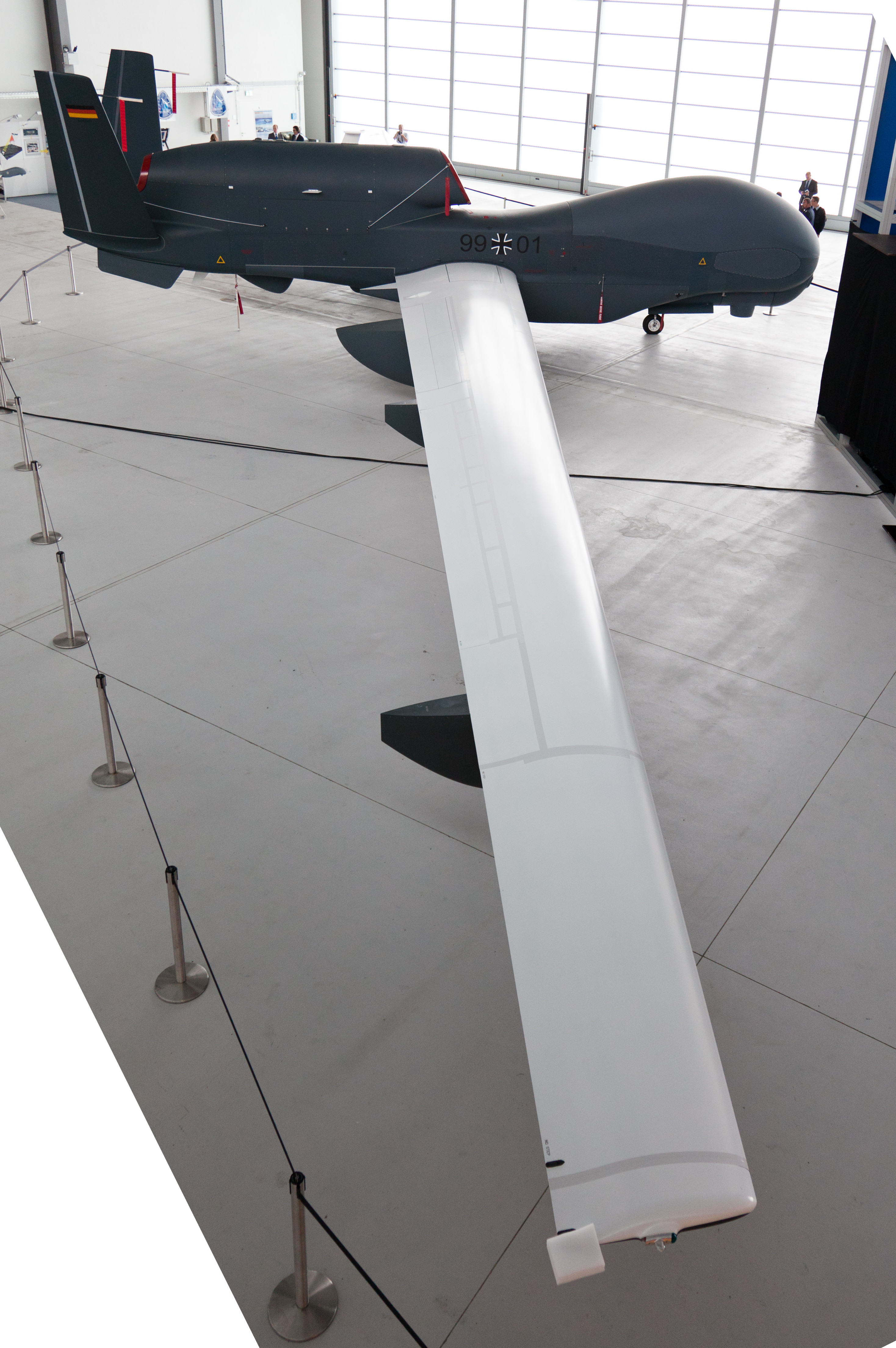 EADS/Cassidian built a new hangar for the new reconnaissance drone Eurohawk. This first out of 4 UAVs for the German Luftwaffe landed autonomously in Manching, Bavaria, in July, 2011. The photo was taken during a press event.